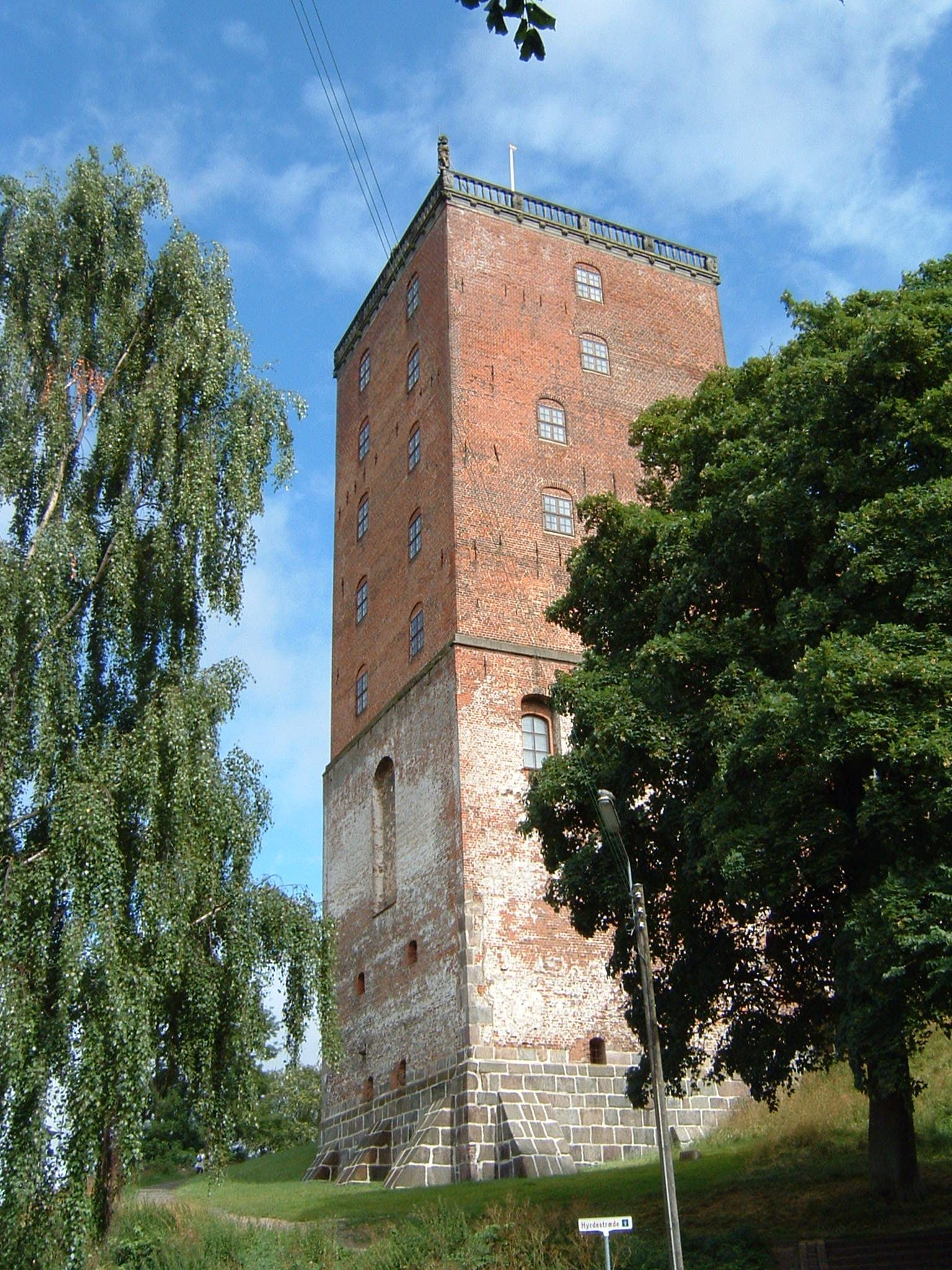 Own photograph. The tower of Koldinghus Castle in the Danish city of Kolding.